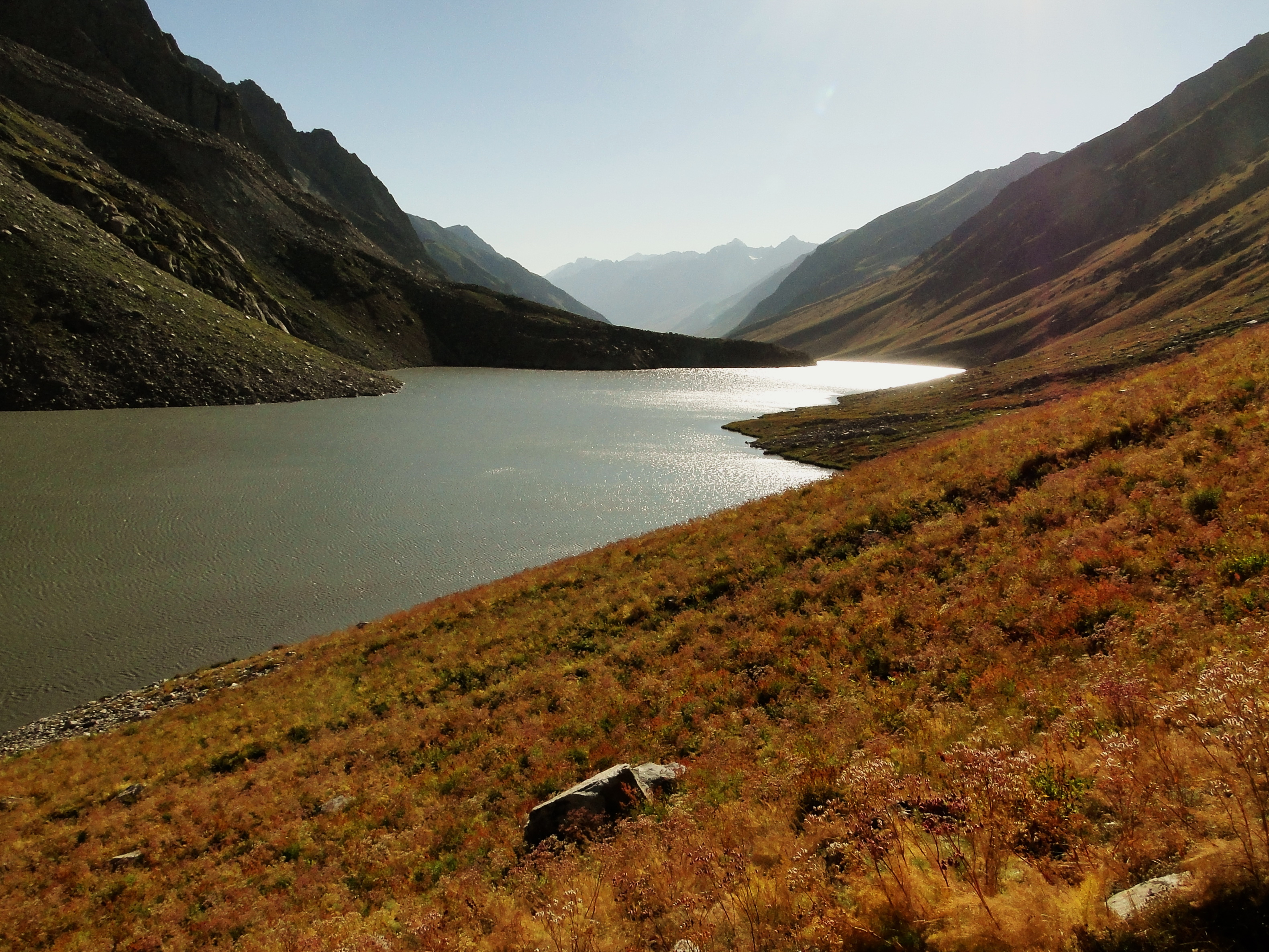 озеро Шовуркуль, Узбекистан